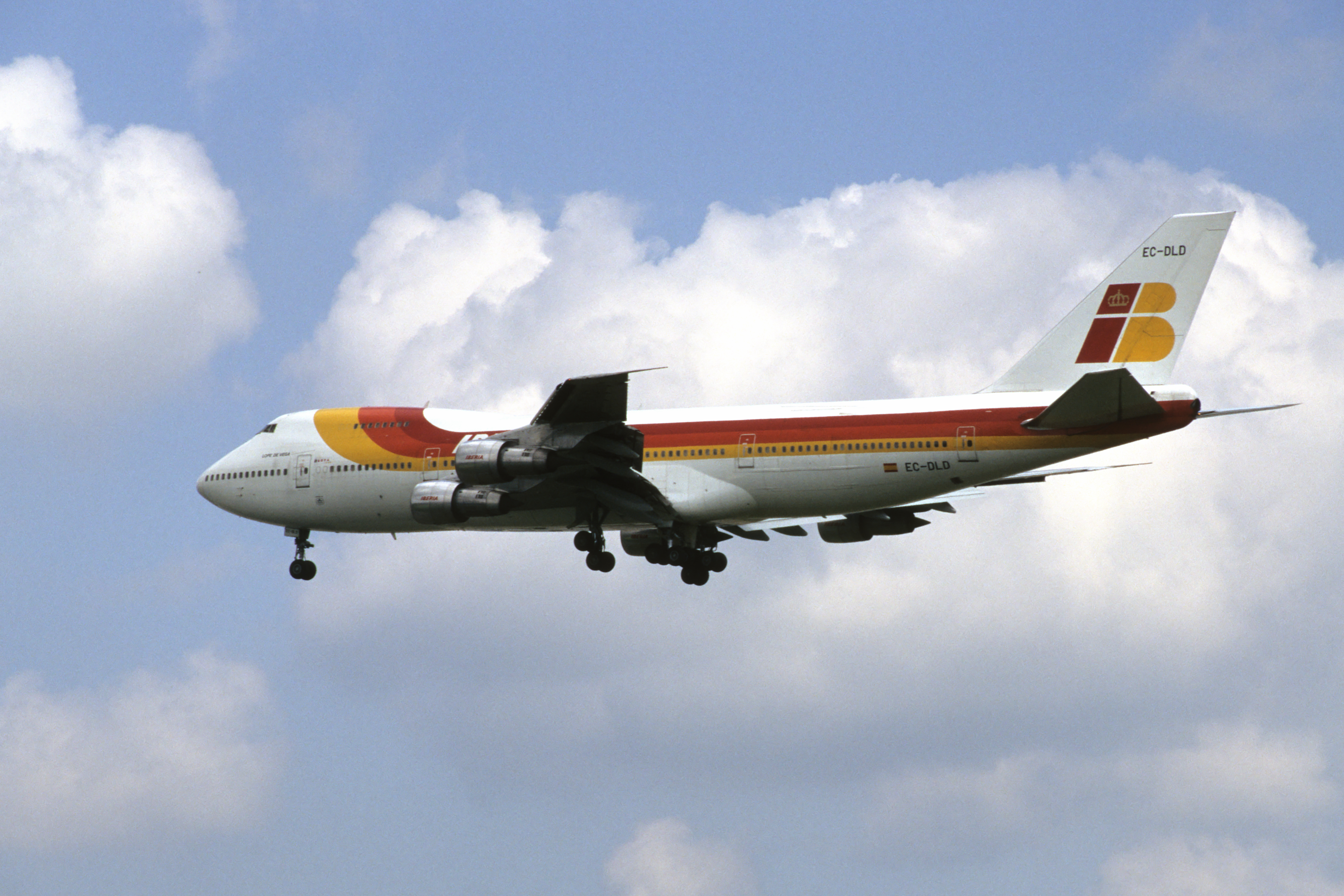 Early 1990's...